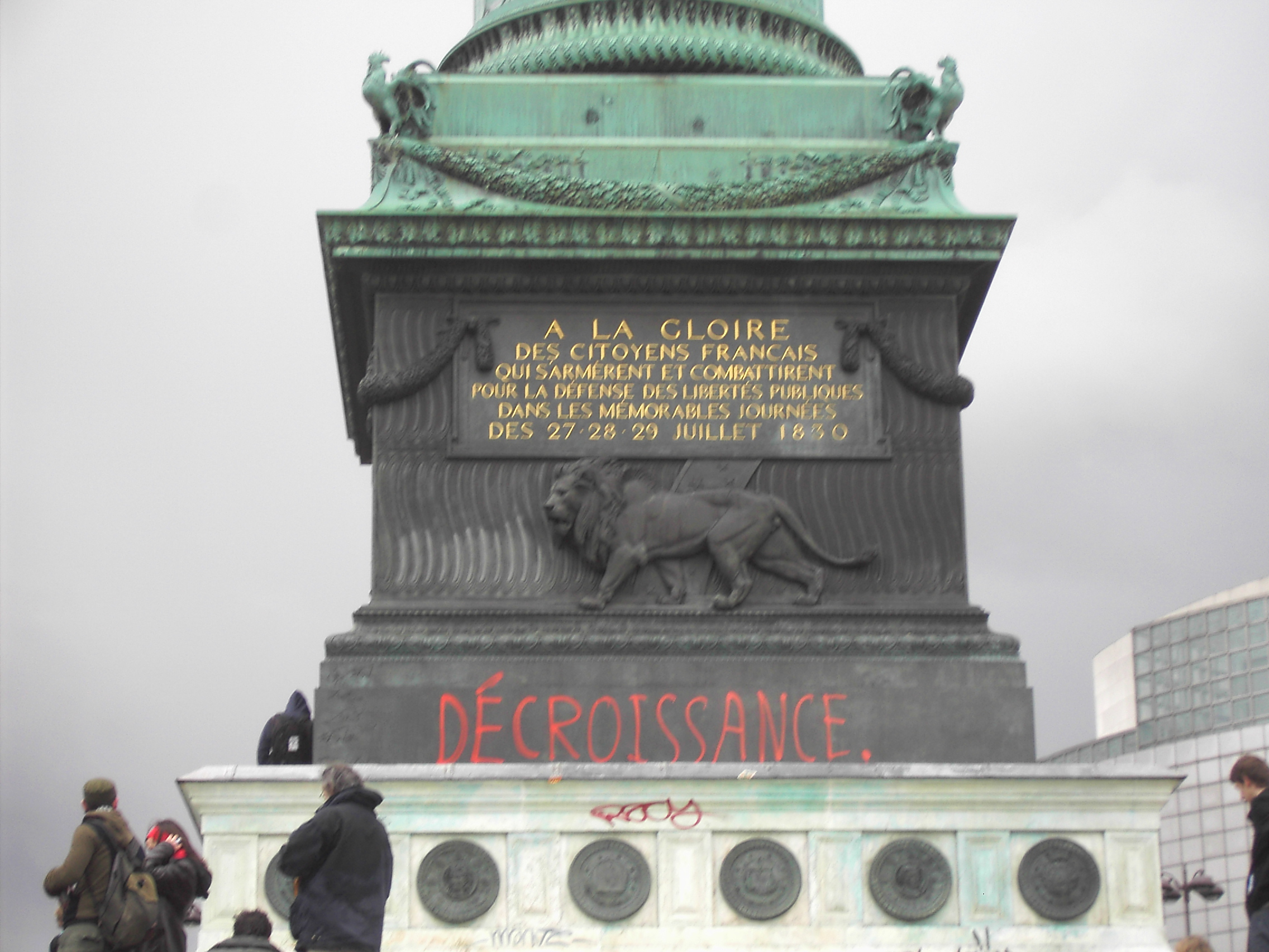 „Uneconomic growth“